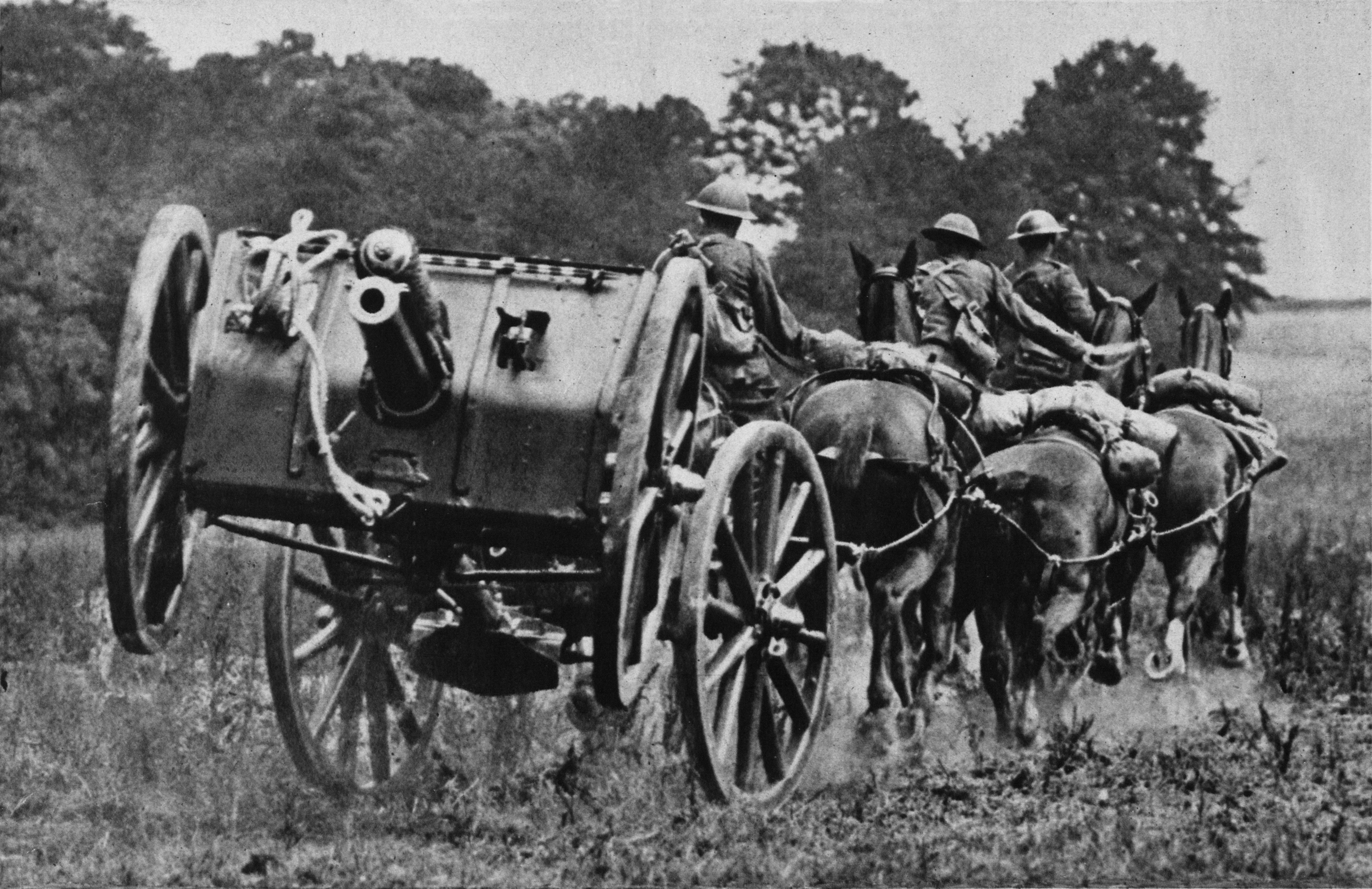 A good illustration of a British QF 13 pounder field gun of the Royal Horse Artillery, towed by 6 horses. New York Tribune caption : "Going into action and hitting only the highest spots, British artillery speeding along in pursuit of the fleeing foe on the Western front."